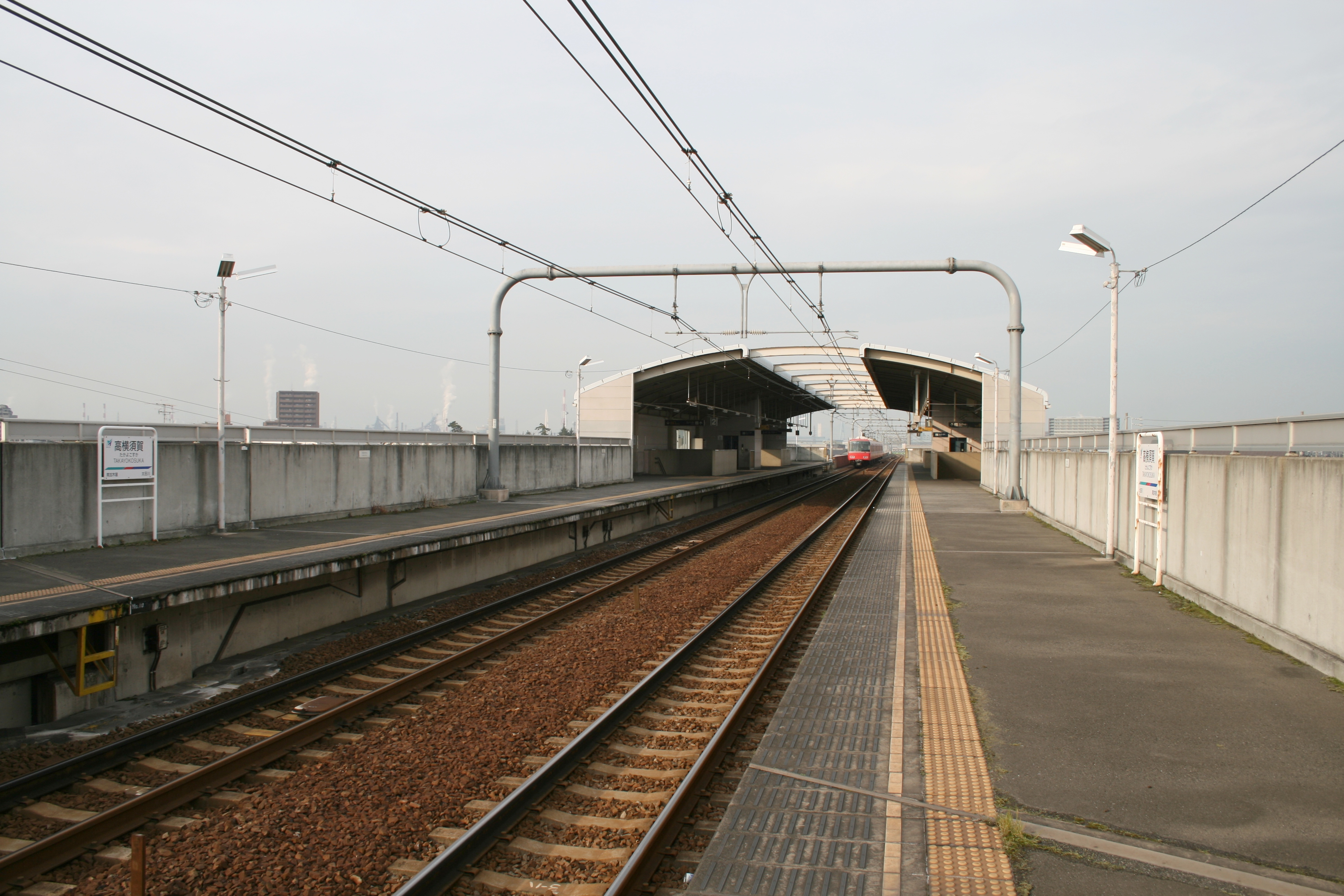 Takayokosuka Station, Tokai, Aichi, Japan